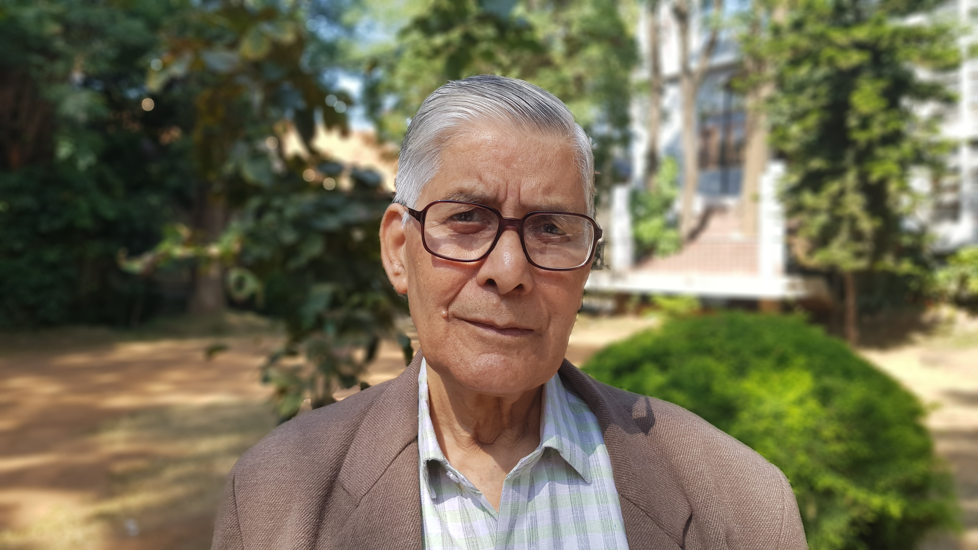 Ganga Prasad Vimal's photograph taken in January 2019